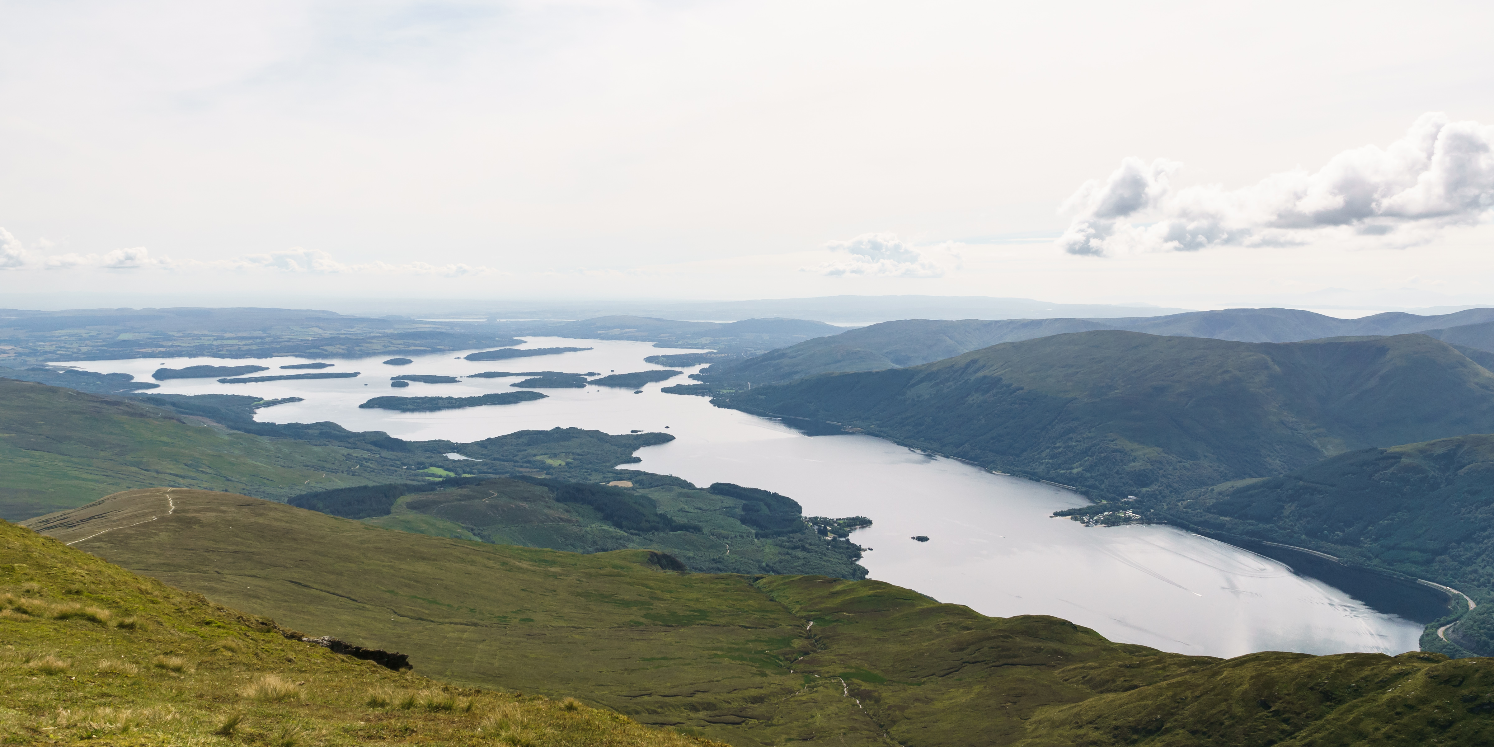 Loch Lomond, looking south from Ben Lomond summit.